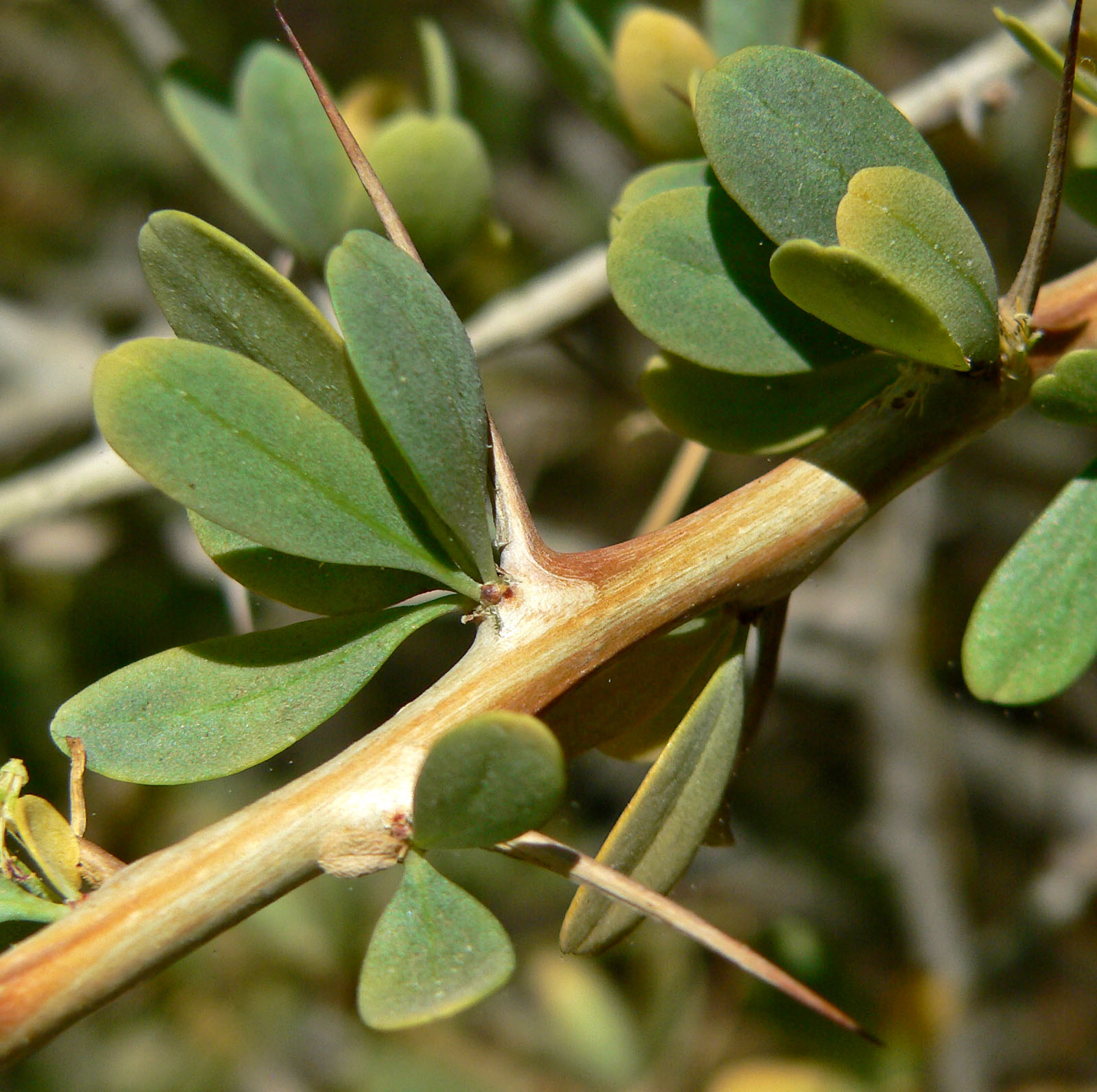 Fouquieria columnaris at the Ethel M Botanical Cactus Garden, Las Vegas, Nevada